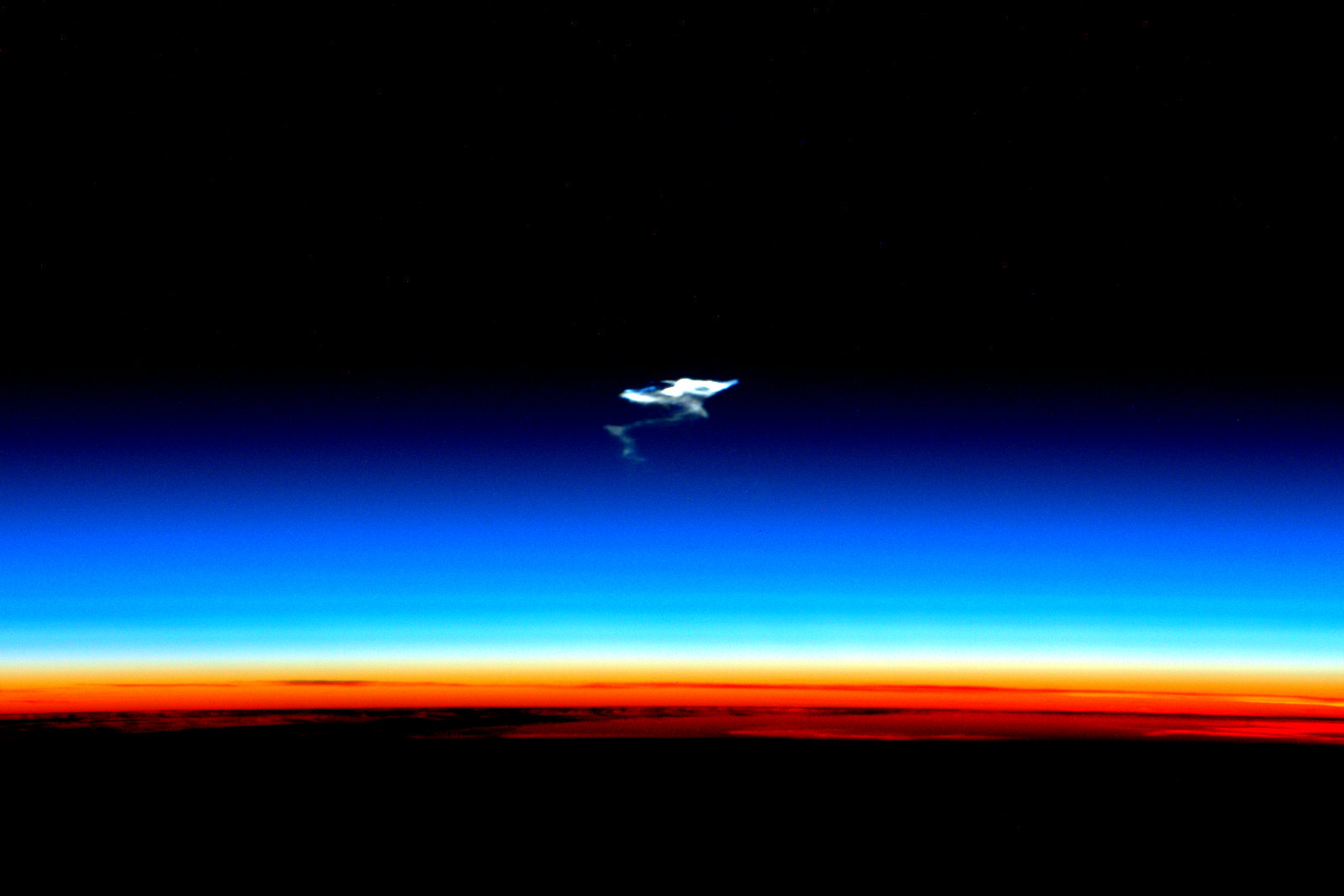 The remnants of #Soyuz's fiery plunge through the atmosphere. Congratulations on a successful landing #SoyuzTMA17M!